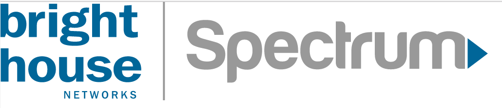 Logo for the American media company Bright House Networks.